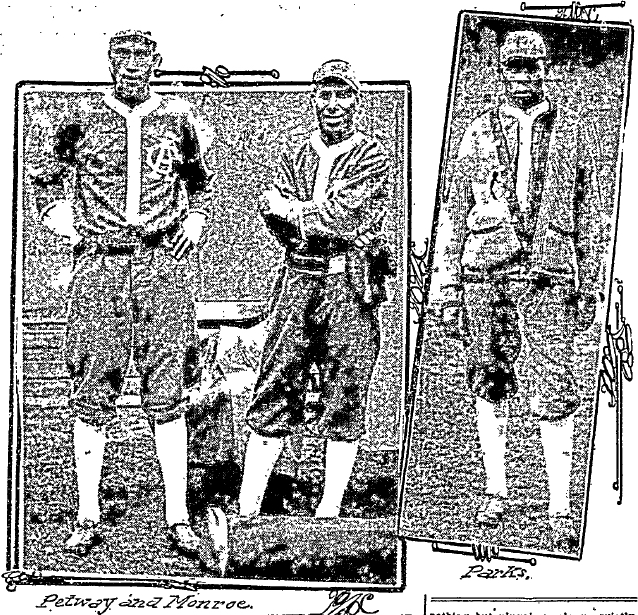 Promotional Material for baseball game in Portland Oregon, originally published in the Oregonian, Portland, Oregon, April 4, 1913, Page 8, Columns 2 to 4